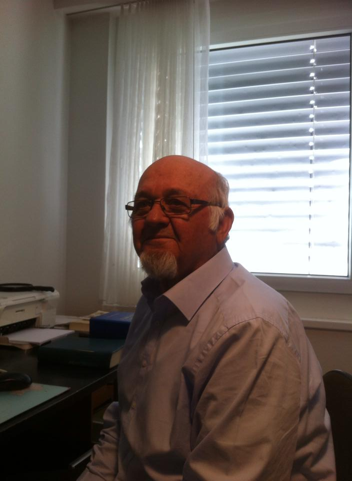 This picture is taken by me.